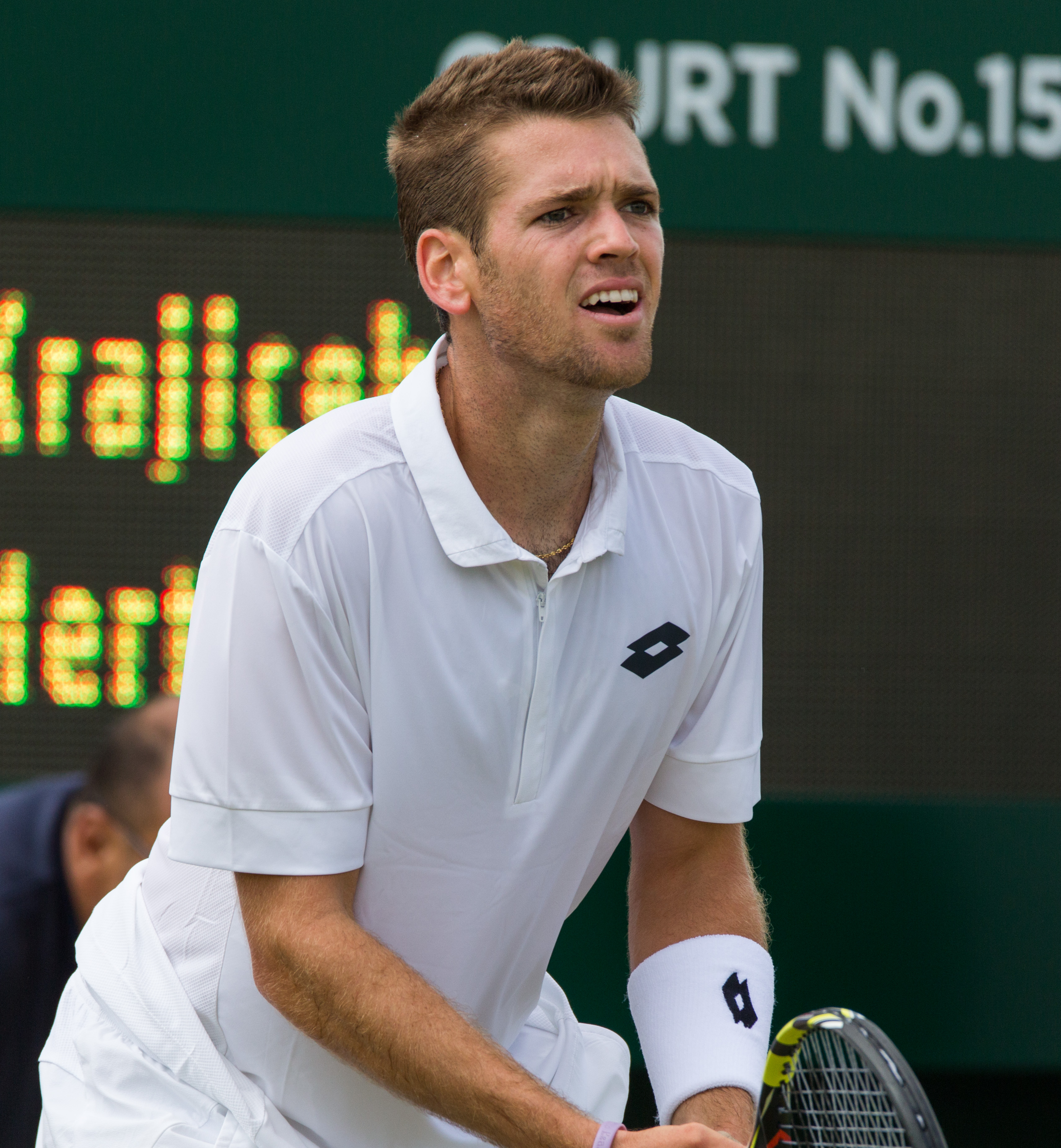 Austin Krajicek competing in the first round of the 2015 Wimbledon Qualifying Tournament at the Bank of England Sports Grounds in Roehampton, England. The winners of three rounds of competition qualify for the main draw of Wimbledon the following week.